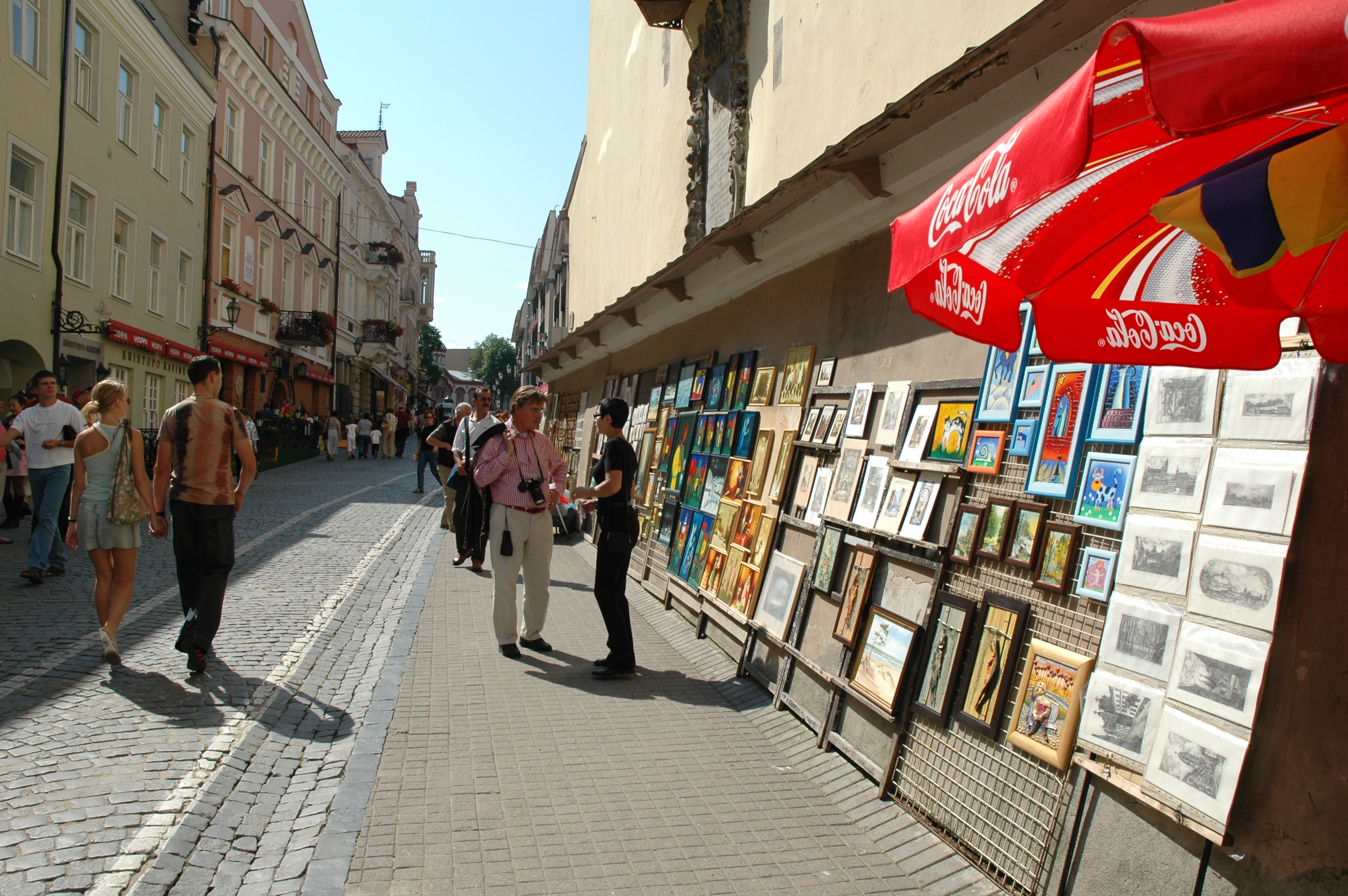 Selling various painting to tourists on Pilis Street, Vilnius, Lithuania